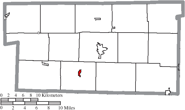 Map of the municipal and township boundaries of Holmes County, Ohio, United States, as of the 2000 census, with the location of the village of Killbuck highlighted. Township borders are shown only in unincorporated areas in order to differentiate incorporated and unincorporated areas more clearly.